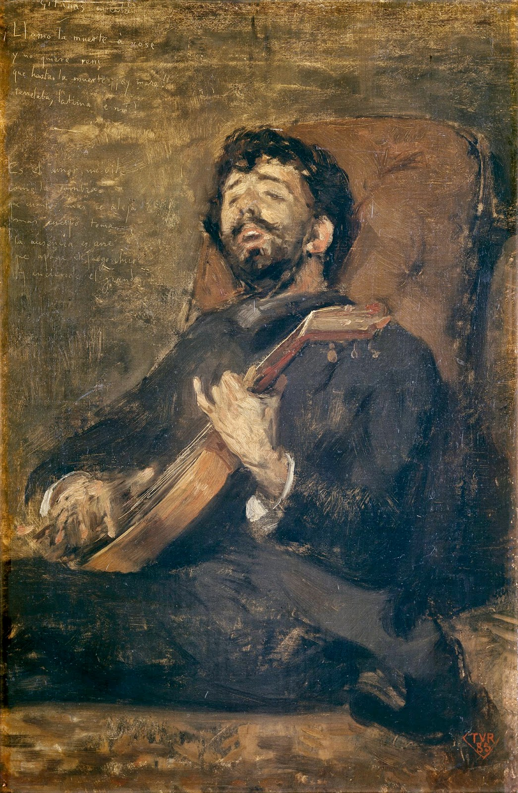 Thèo Van Rysselberghe, Darío de Regoyos tocando la guitarra, 1885.